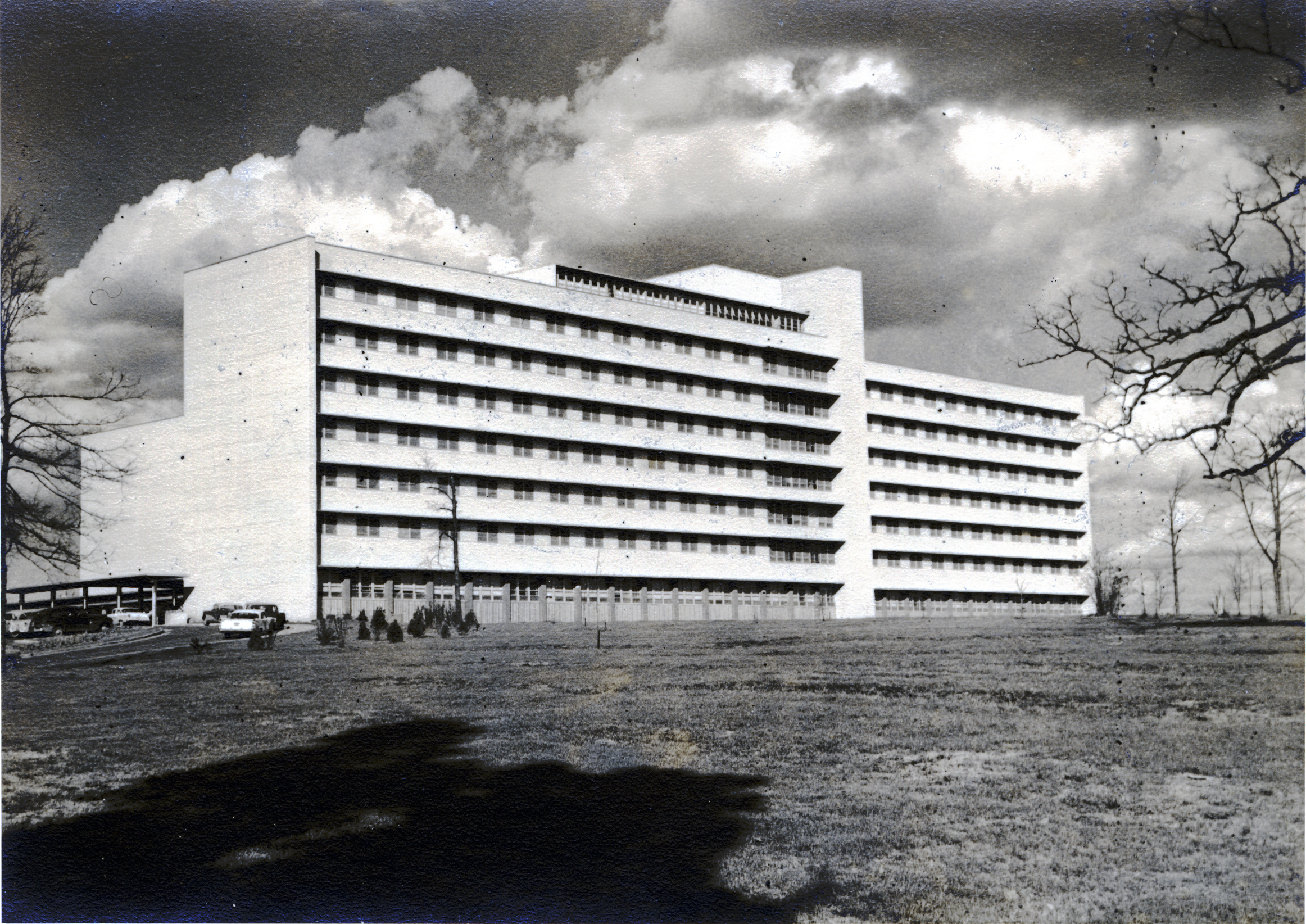 Collection: Shankle, Hugh W., Collection Call Number: PI/COL/1981.0066 System ID: 105951. Link to the catalog From University Medical Center, Jackson, before additions. Exterior view of multistory building and grounds for health sciences center of the University of Mississippi, Jackson, Mississippi. Please see our profile page for information on ordering. Scanned as tiff in 2011/05/26 by MDAH. Credit: Courtesy of the Mississippi Department of Archives and History